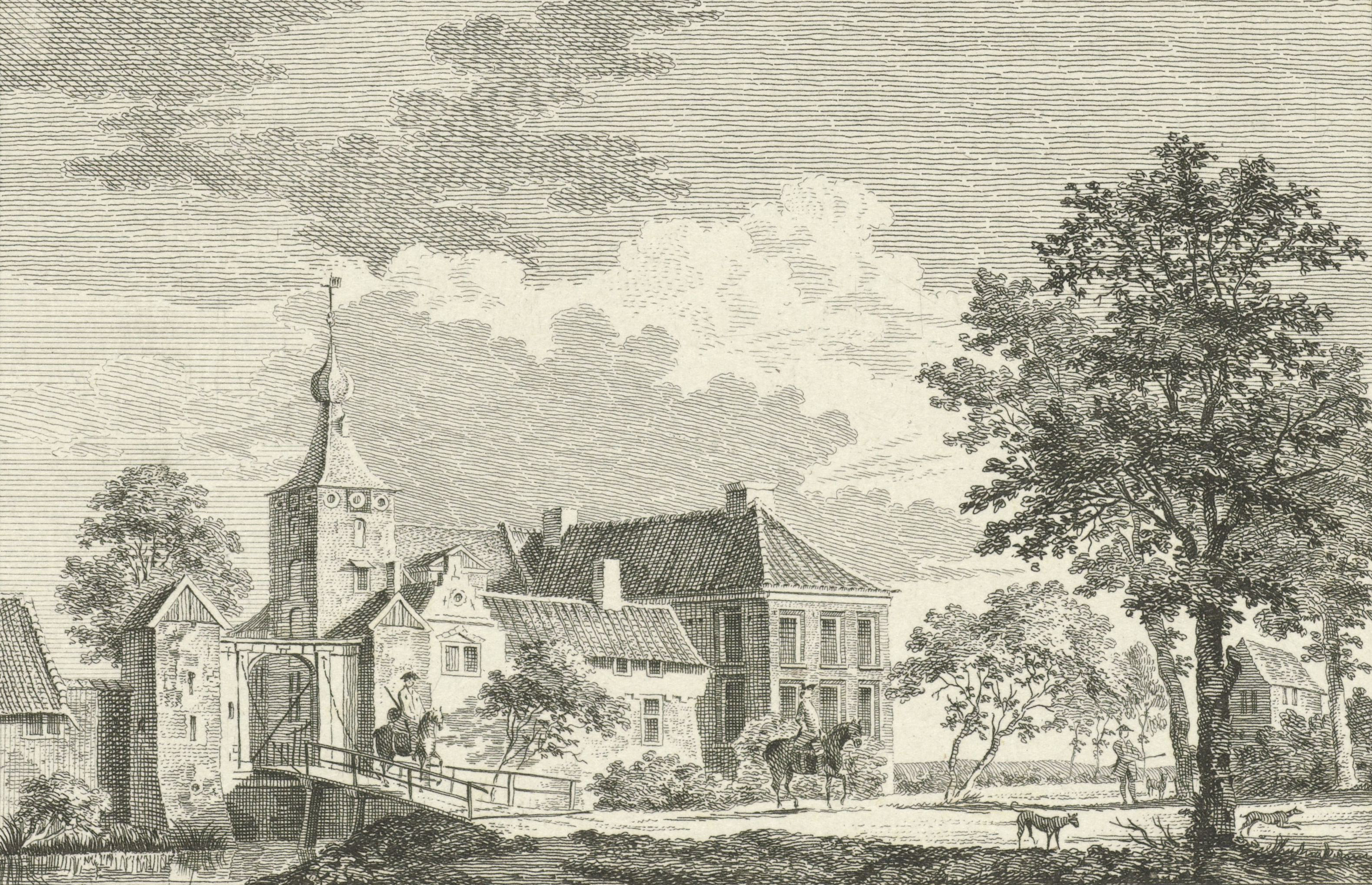 Copper engraving of Schlosses Kalbeck in Weeze